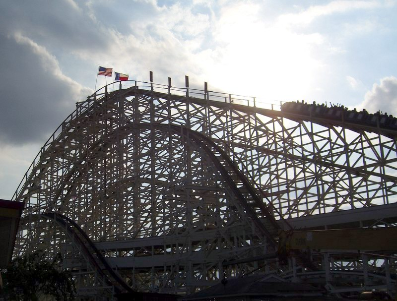 Picture of the Texas Cyclone going to coaster heaven 1 hour before Astroworld Closes forever on 10-30-05.